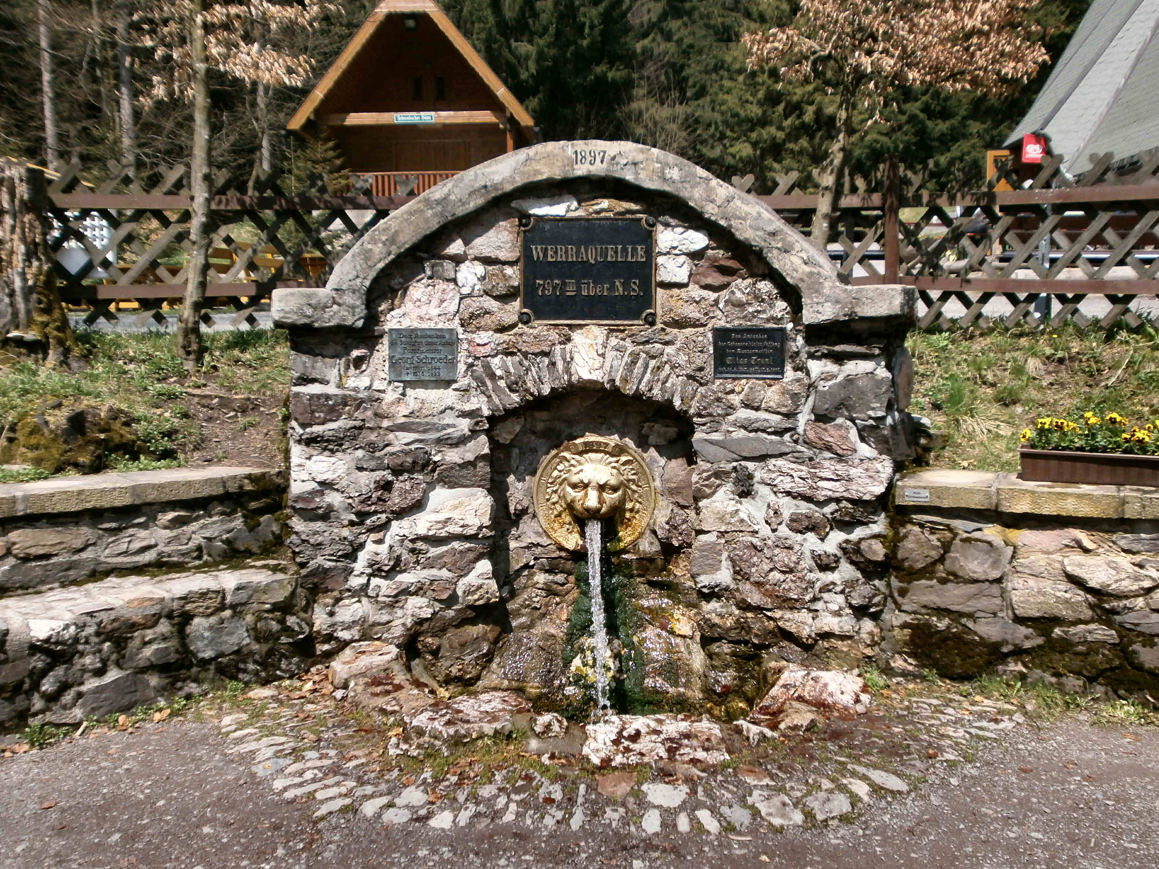 Werra Source